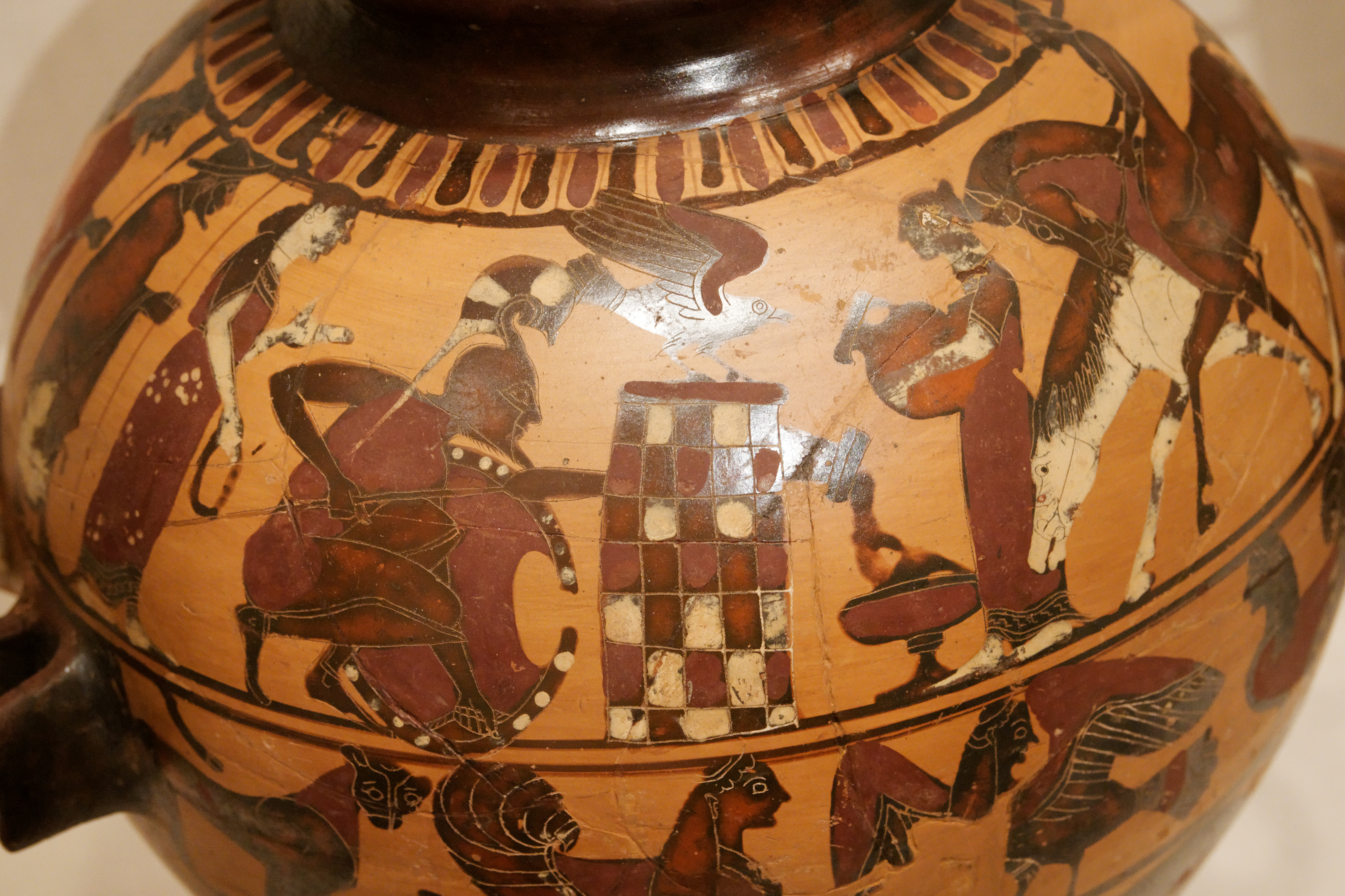 Achilles ambushing Troilos and Polyxena, shoulder of an Attic black-figure hydria.